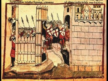 Charge of the Parmesan chavalry against Frederic II's camp.